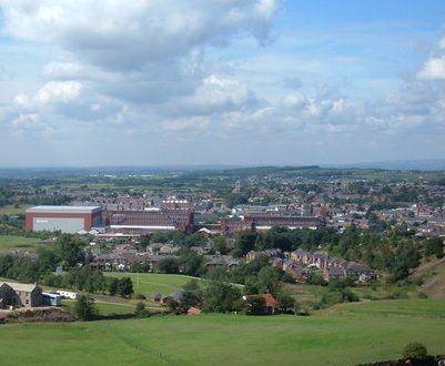 A view of Shaw and Crompton, Oldham, Greater Manchester, England. Looking west into square grid reference SD9408 from grid reference SD951088 towards Shaw's remaining cotton mills now in use as storage and distribution centres.